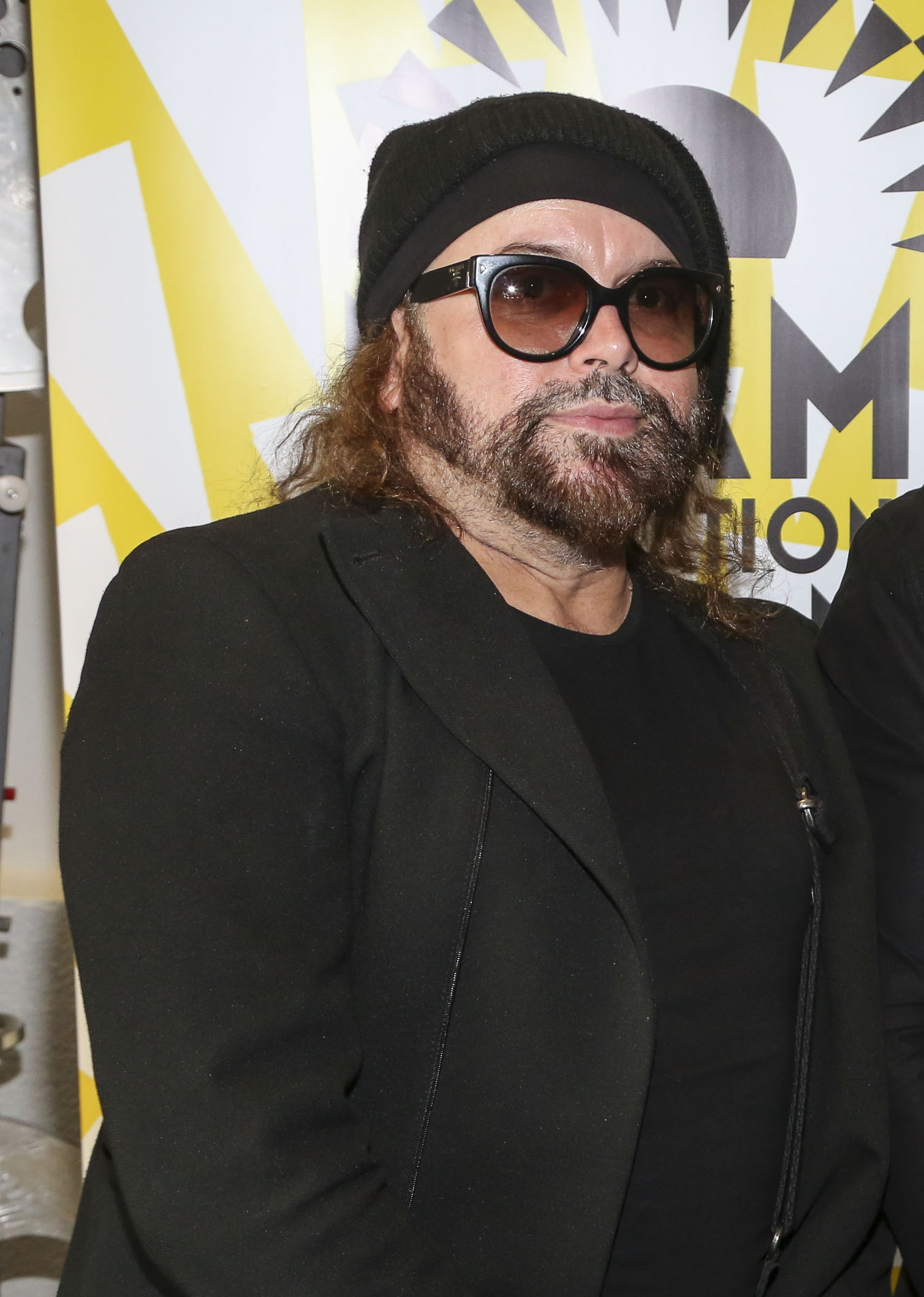 Carlos Varela at the Miami International Film Festival presentation of The Poet of Havana at Tower Theater, May 7, 2015